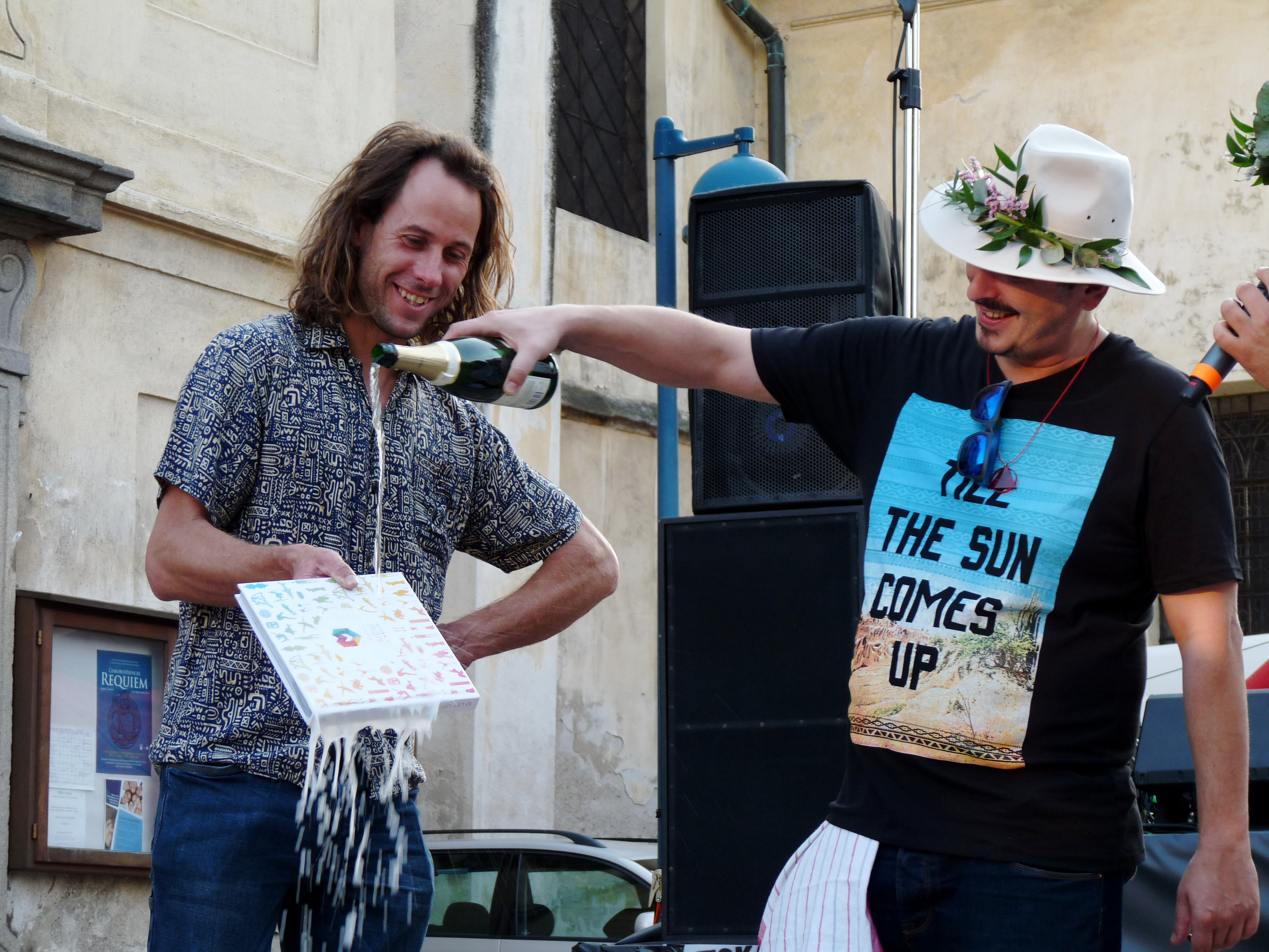 Sculptor Michal Trpák with the graphic designer of the book mapping 10 years of his Art in Town" exhibition on 25 August 2017, České Budějovice, South Bohemian Region, Czech Republic.